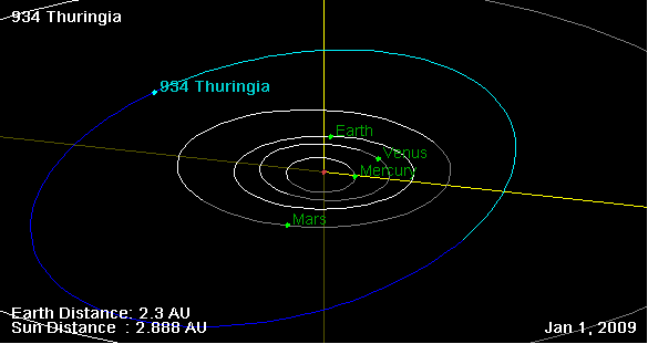 934 Thuringia orbit, and his position on 01 Jan 2009 (NASA Orbit Viewer applet)